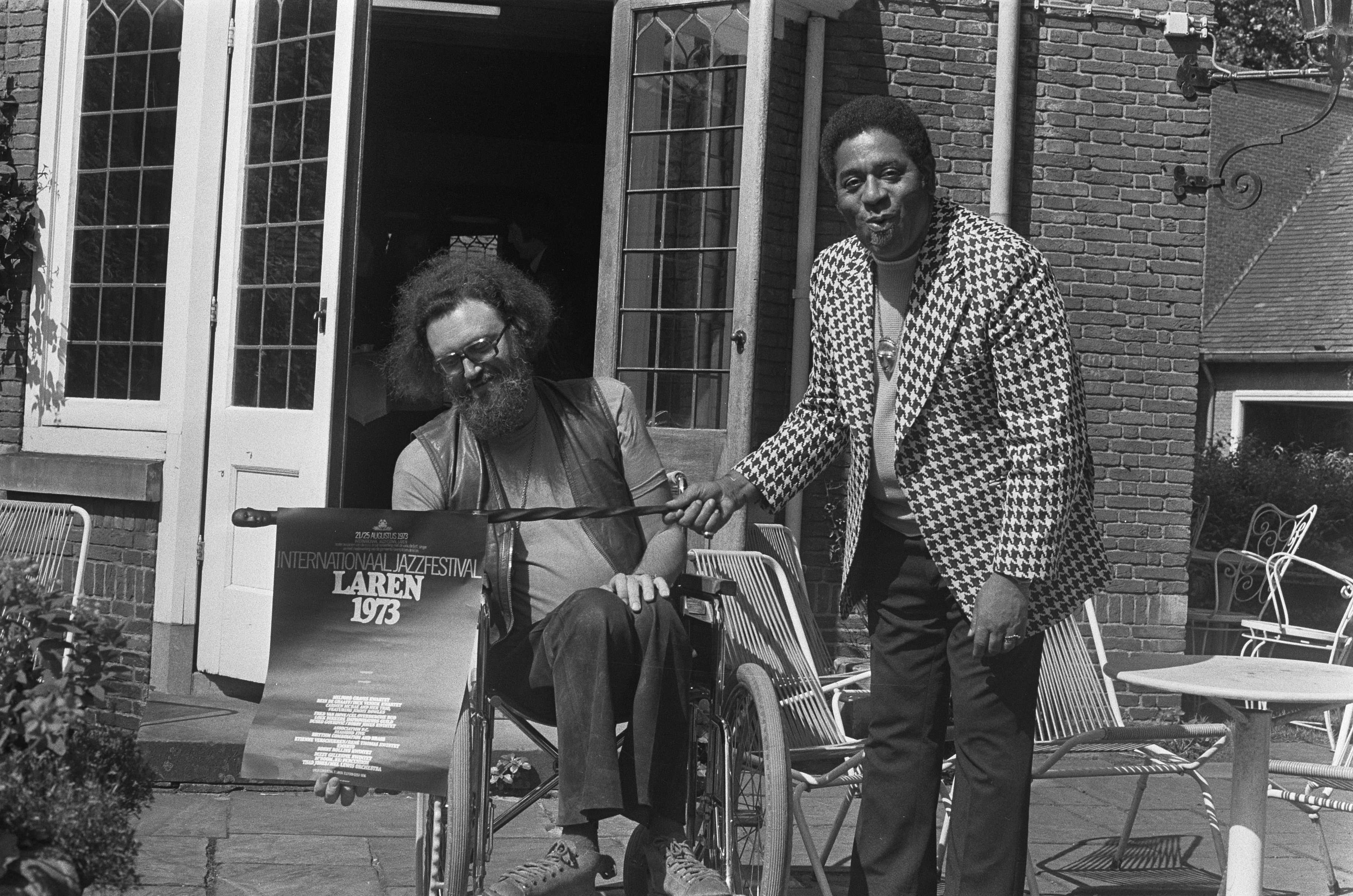 Michiel de Ruyter (Dutch jazz specialist) and Dizzy Gillespie. Int. Jazz Festival in Singer (Laren, the Netherlands)